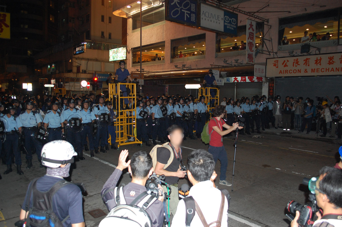 Umbrella Movement protests, Mong Kok, Hong Kong on 25 November 2014. A police cordon on Reclamation Street, with yellow towers from which tear gas is sprayed.